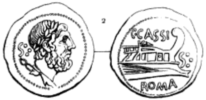 Dodrans by Henry Cohen